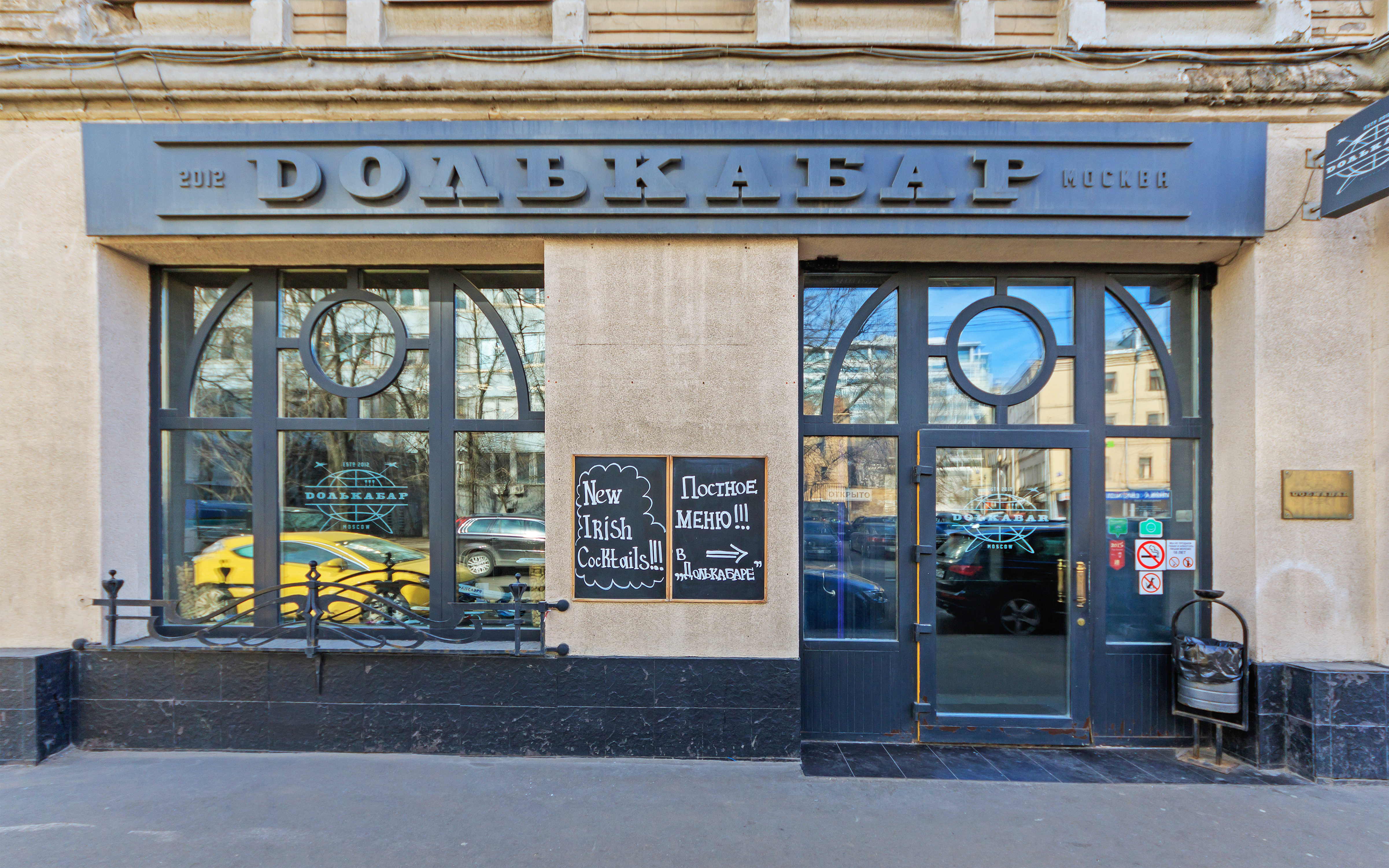 Exterior of Dolkabar restaurant in Moscow